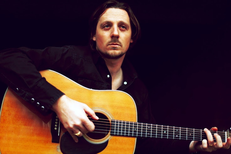 Sturgill Simpson